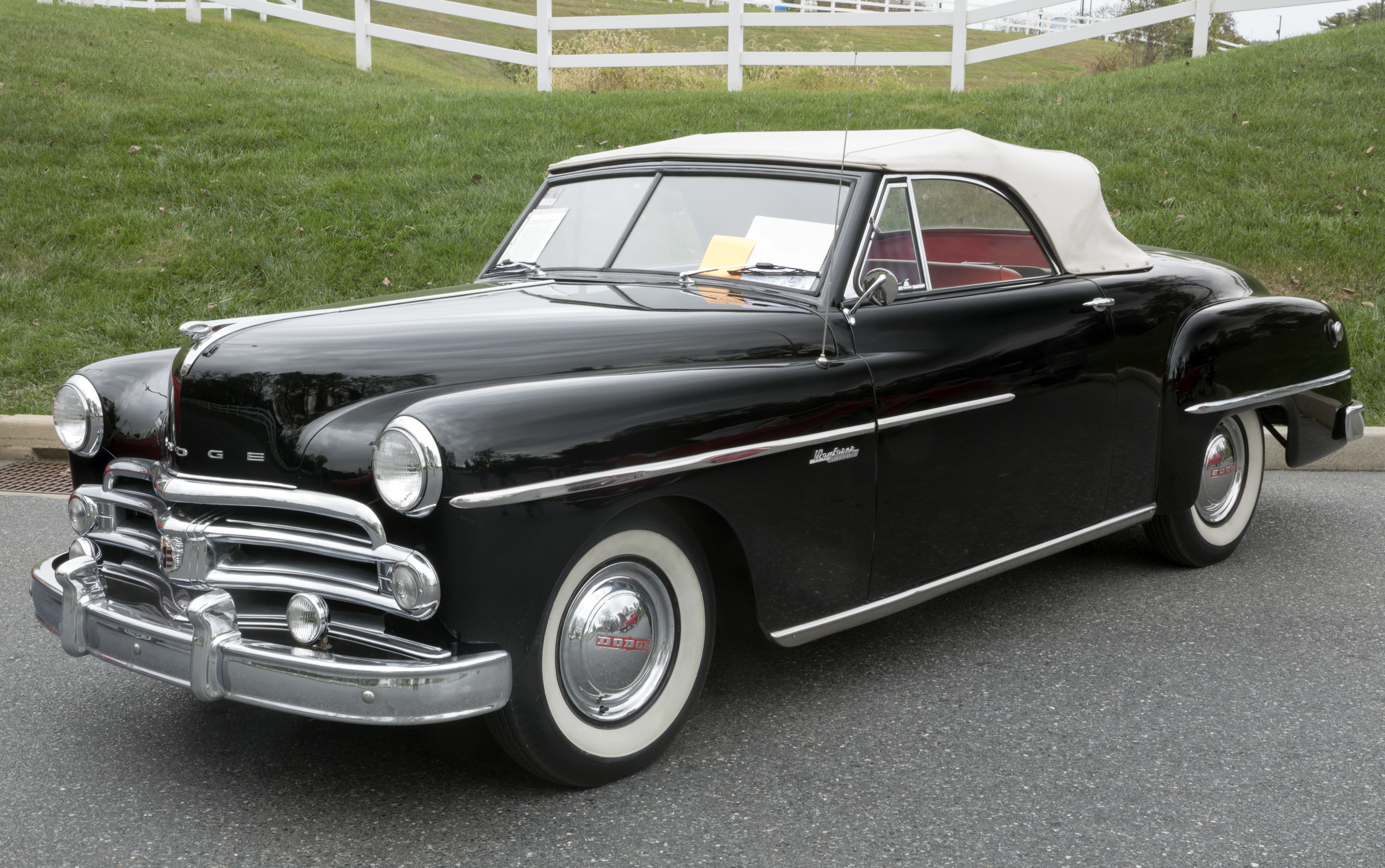 A 1950 Dodge Wayfarer Sportabout in the Car Corral (for selling running cars) at Hershey 2019. Chassis no. 37102411, three-speed manual and has the optional rear seat and original AM radio. Assembled in Detroit, MI.